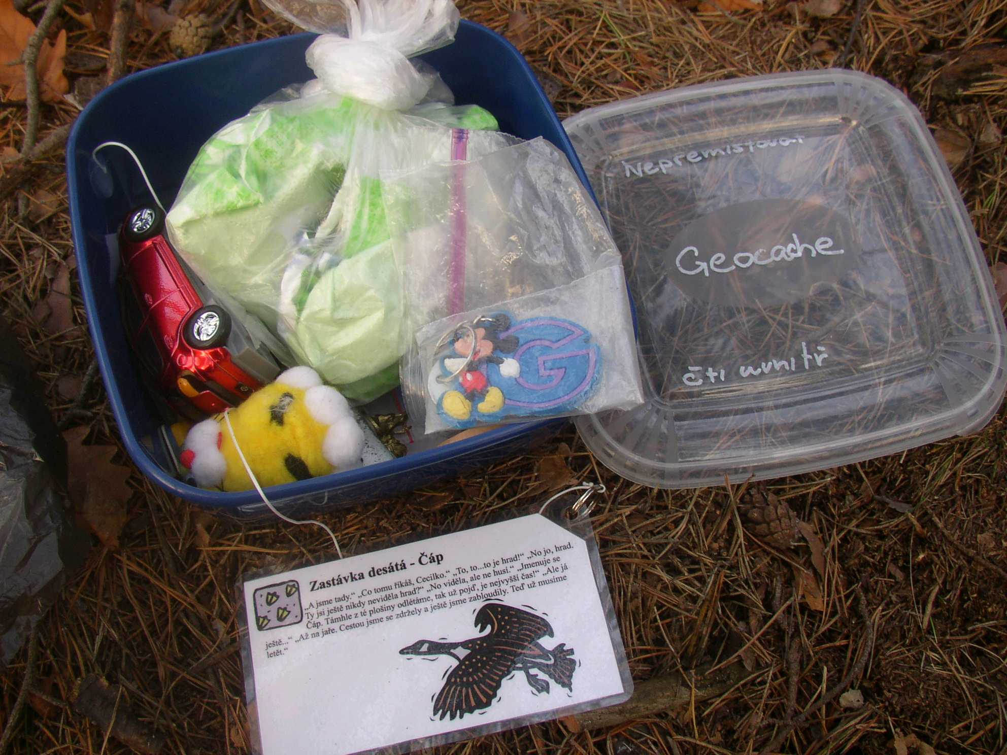 An example of container for geocaching game, Czech Republic.